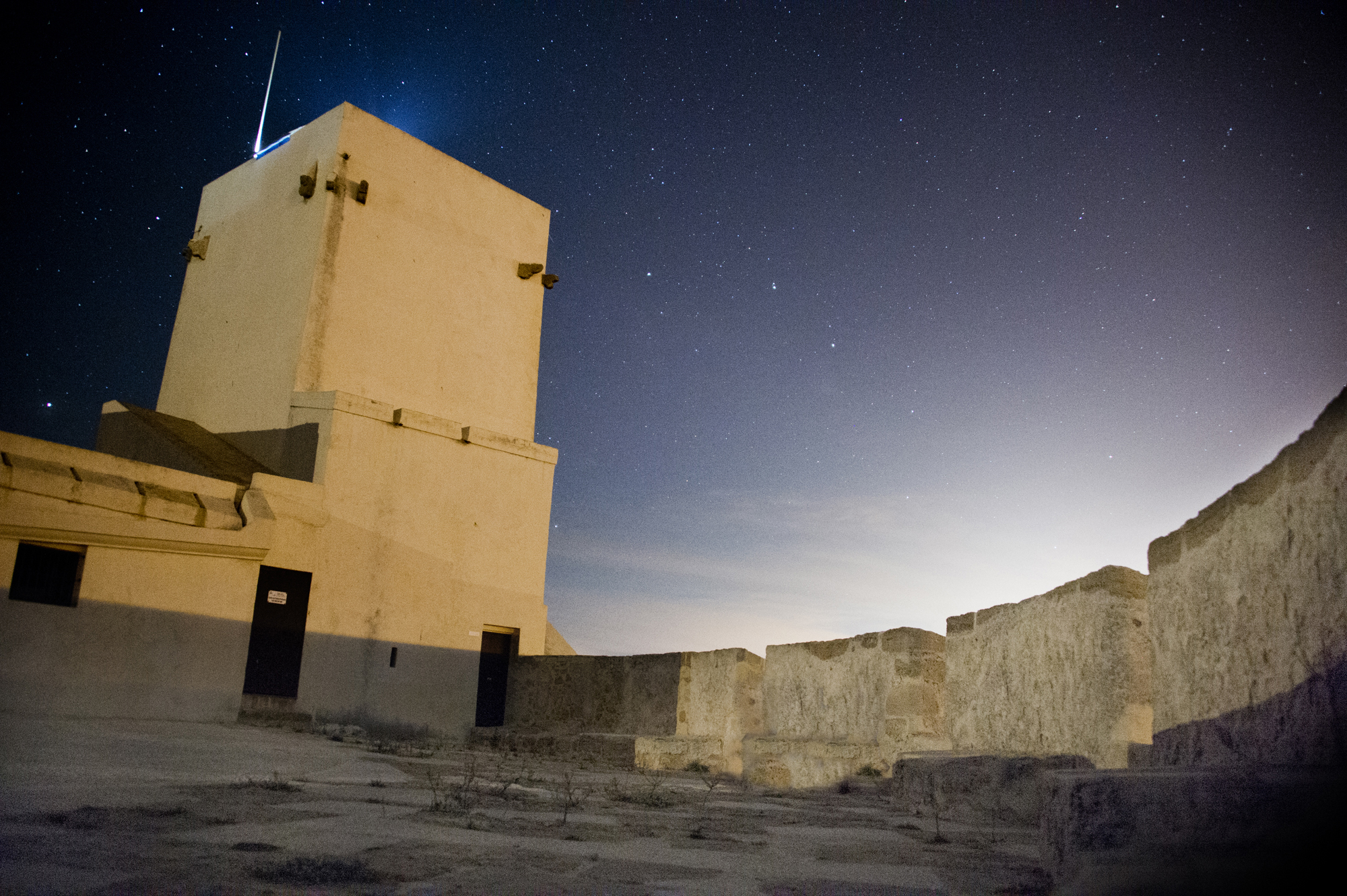 Visión nocturna de la bateria este y la torre del castillo de Sancti Petri. Night view of the East batteries and tower (Castillo de Sancti Petri, Spain)